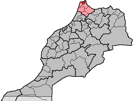 Location of the province Fahs-Anjra within the region Tanger-Tétouan, Morocco. In total, Morocco has 16 regions, subdivided into 62 provinces and 13 prefectures.